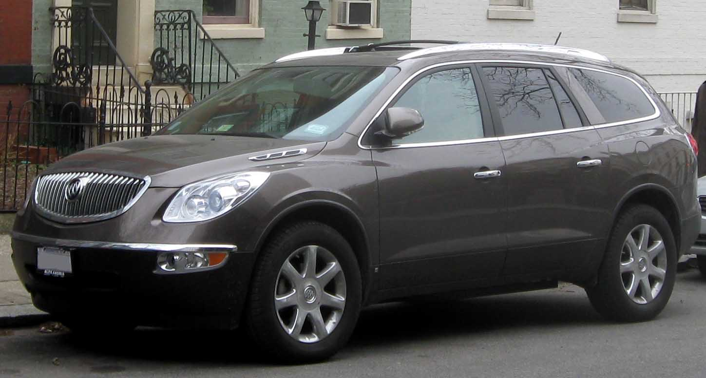 2008-2009 Buick Enclave photographed in Washington, D.C., USA.